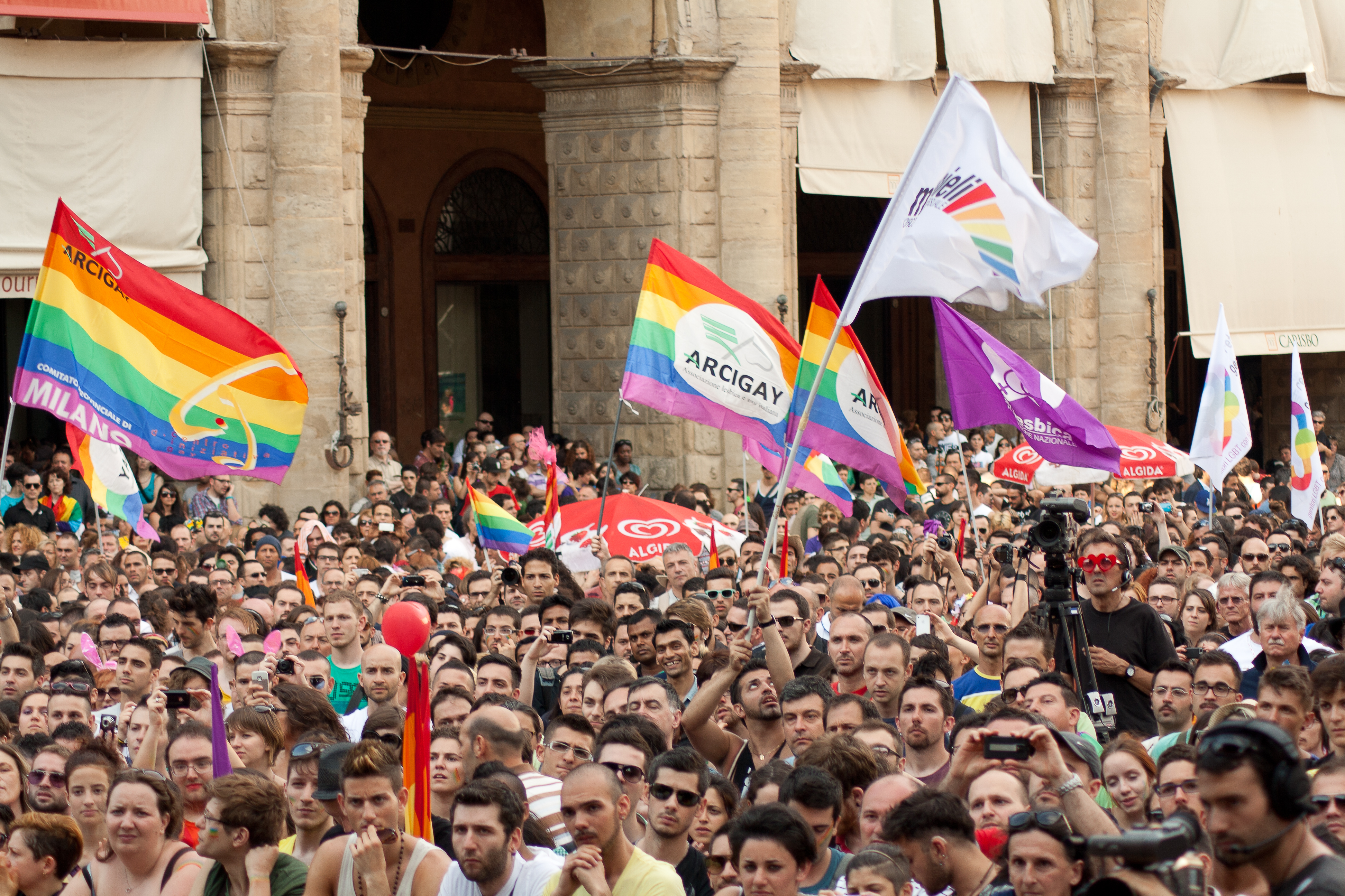 The national Gay Pride march in Bologna (June 9, 2012) gathered 15.000 marchers.